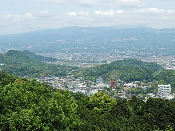 Izu-Nagaoka Onsen area as seen from south in Izunokuni, Shizuoka Prefecture, Japan. Mount Hakone in the background.